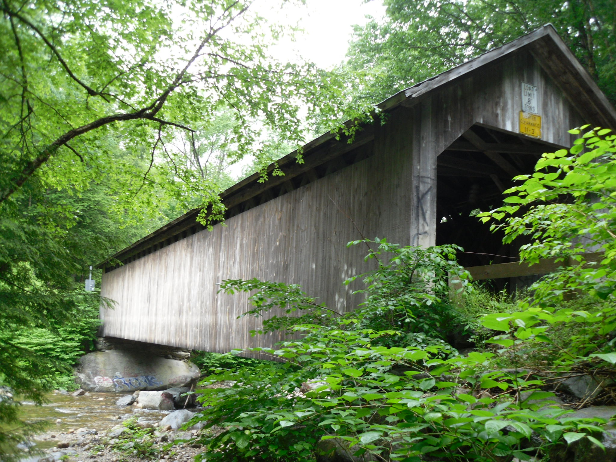 Brown Covered Bridge - Clarendon, Vermont